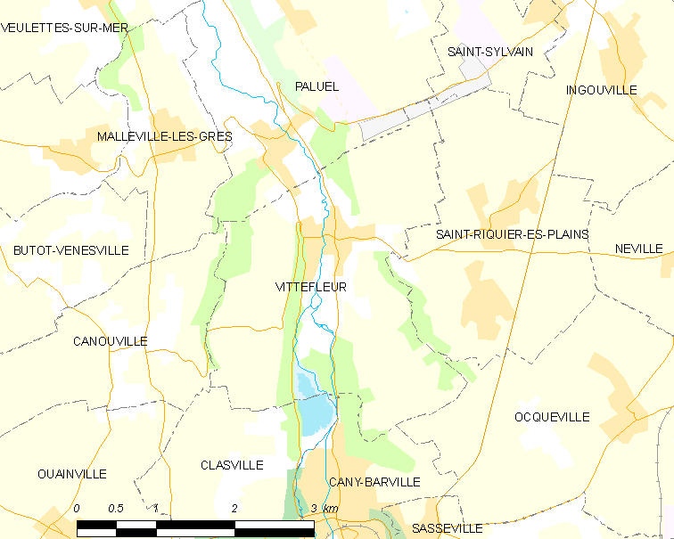 Map of French municipality Vittefleur